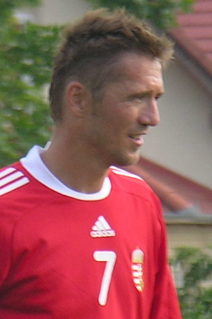 Ottó Vincze Hungarian international football player in Telki (Hungary) - Football Festival by MLSZ